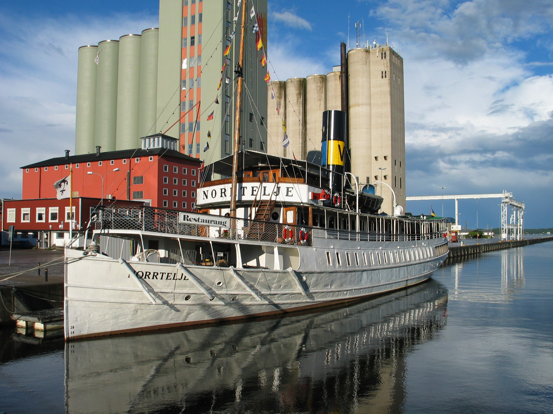 S/S Norrtelje, a ship serving as a restaurant in the harbor of Norrtälje, Sweden. This is an image of the protected Swedish ship S/S Norrtelje, with call sign SFUD .